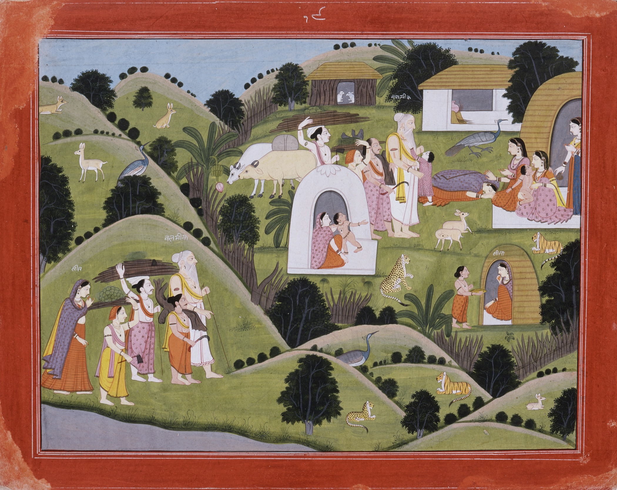 India, Himachal Pradesh, Kangra, circa 1820 Drawings; watercolors Opaque watercolor, gold, and ink on paper Gift of Jane Greenough Green in memory of Edward Pelton Green (AC1999.127.45) South and Southeast Asian Art